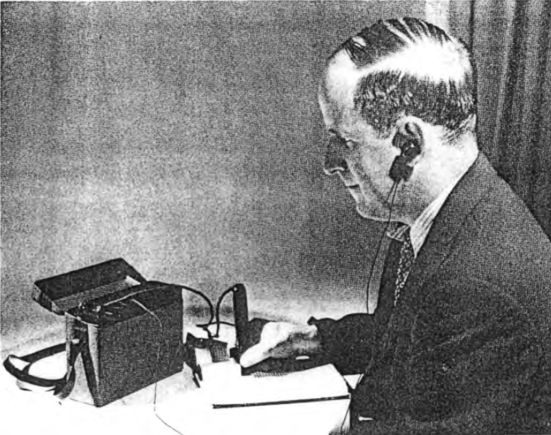 The A-2 Reader in use